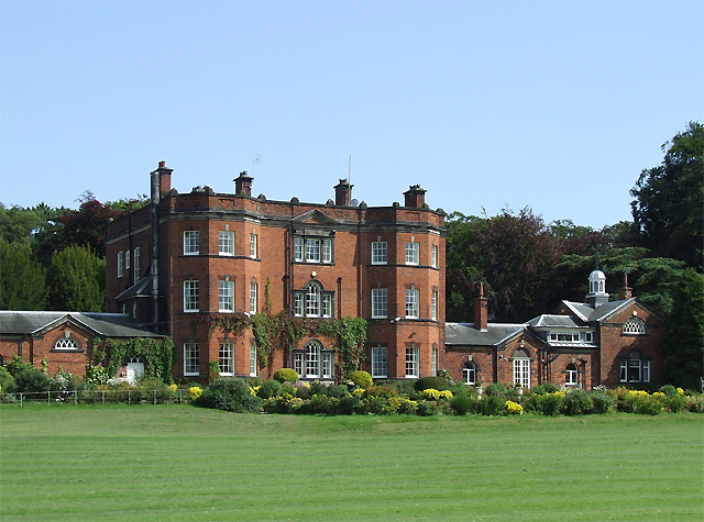 Ramsdell Hall, near Mow Cop, Staffordshire Built in about 1750, the house, inevitably, has its ghost. Legend has it that in its early days, a duel was fought on one of the lawns between two young men who were competing for the hand of the owner's daughter. She dashed out of the house to try to prevent them from fighting, and was ........(if you want the rest of the house history go to ).